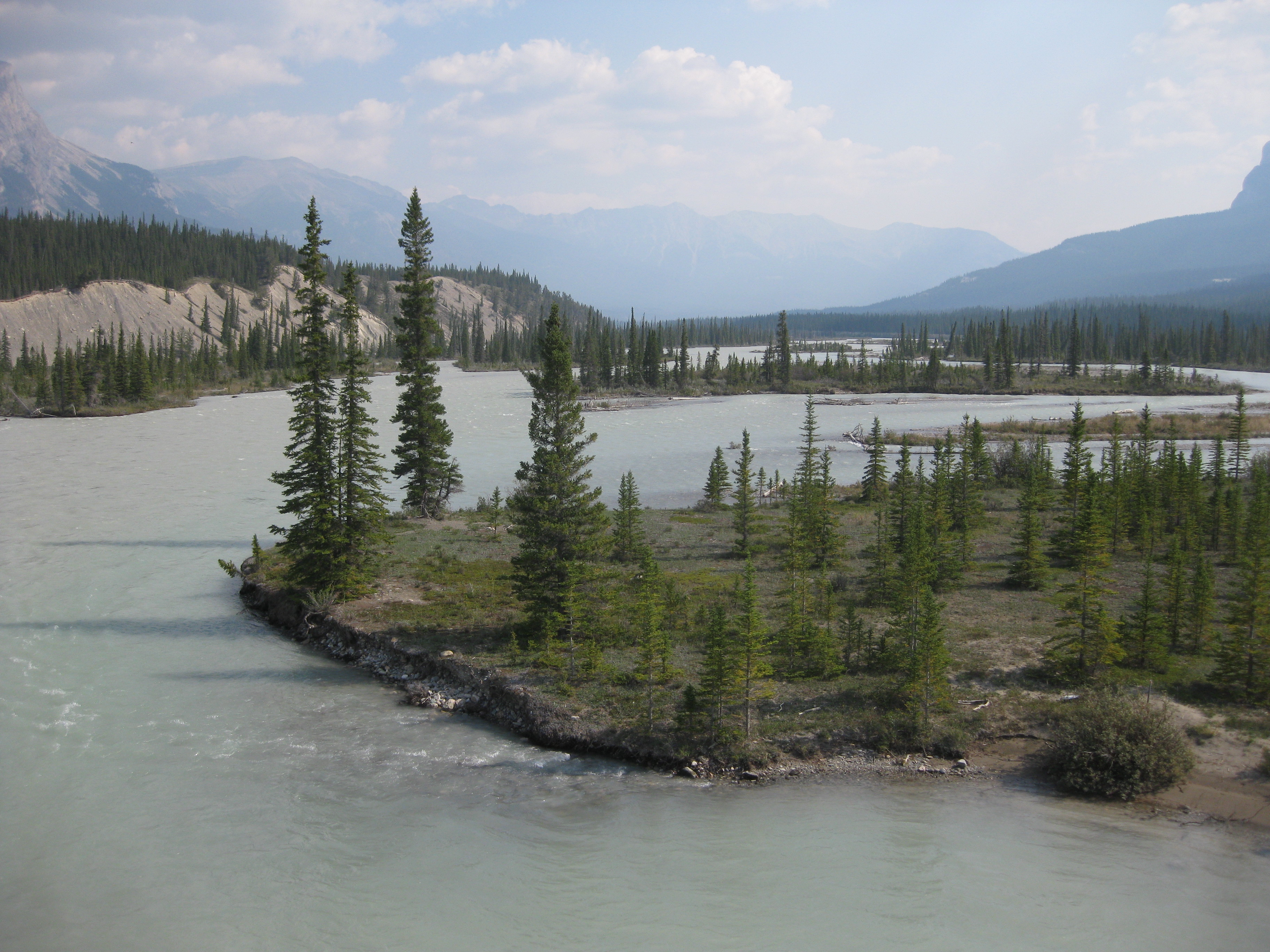 The following is the author's description of the photograph quoted directly from the photograph's Flickr page."Saskatchewan River Crossing, where the three rivers of the Saskatchewan, Mistaya and Howse meet to form the North Saskatchewan River, which eventually drains into Lake Winnipeg. "